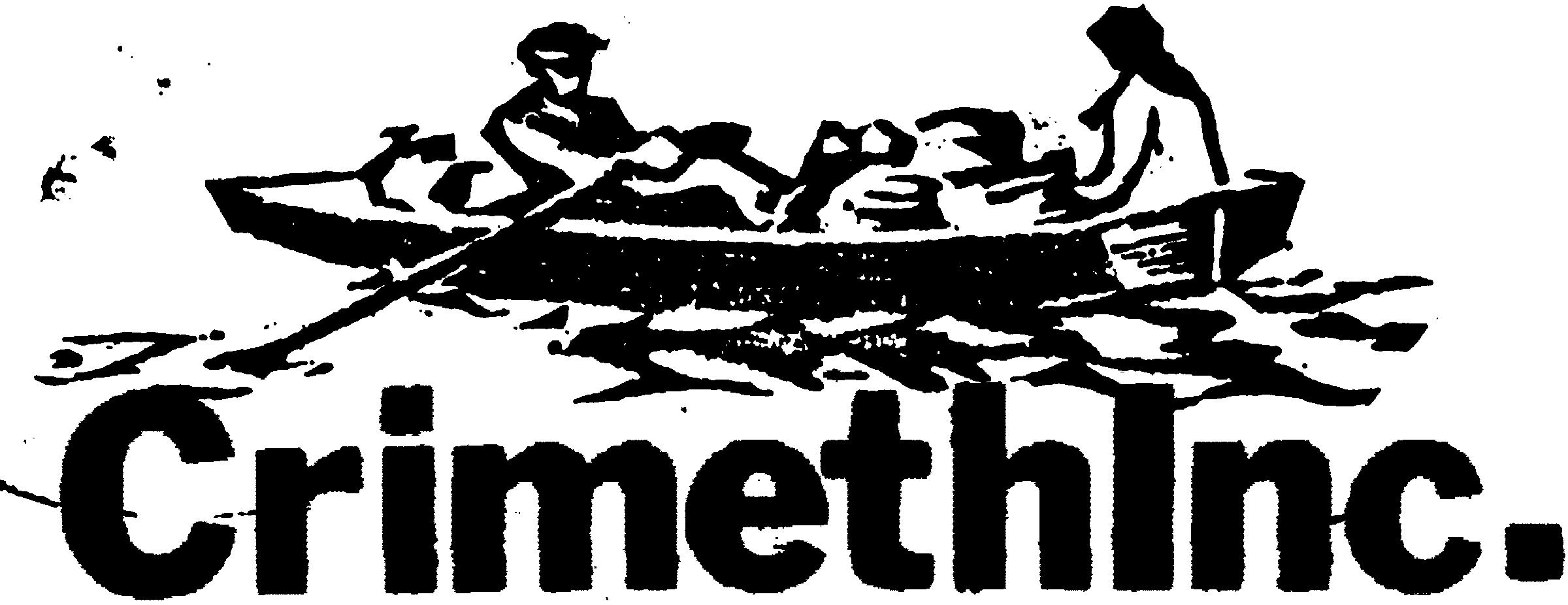 Crimethinc. boat logo